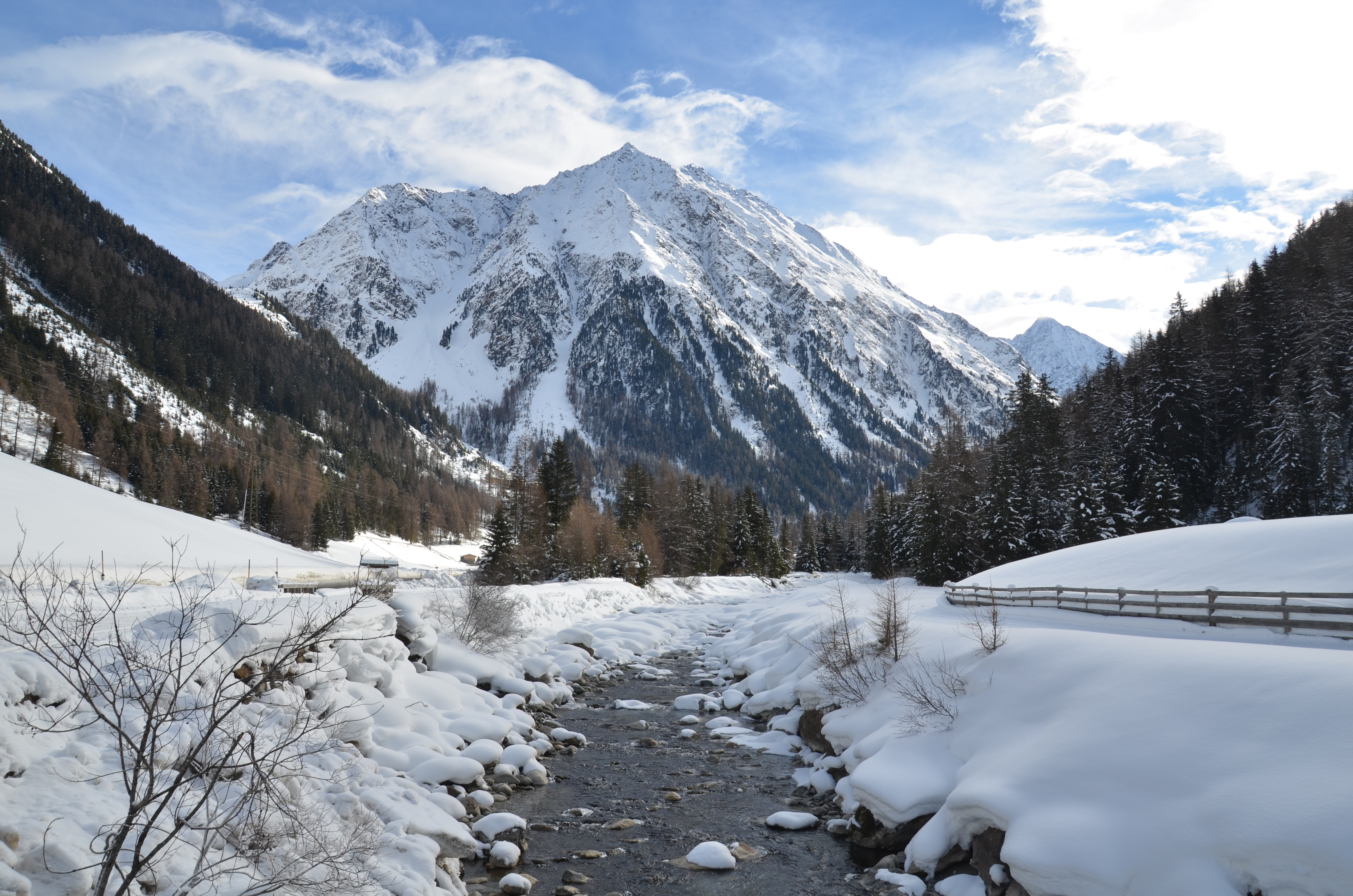 Entering Gries you can see the Winnebachspitzen (mountains) 3155 m heigth. (the right one)